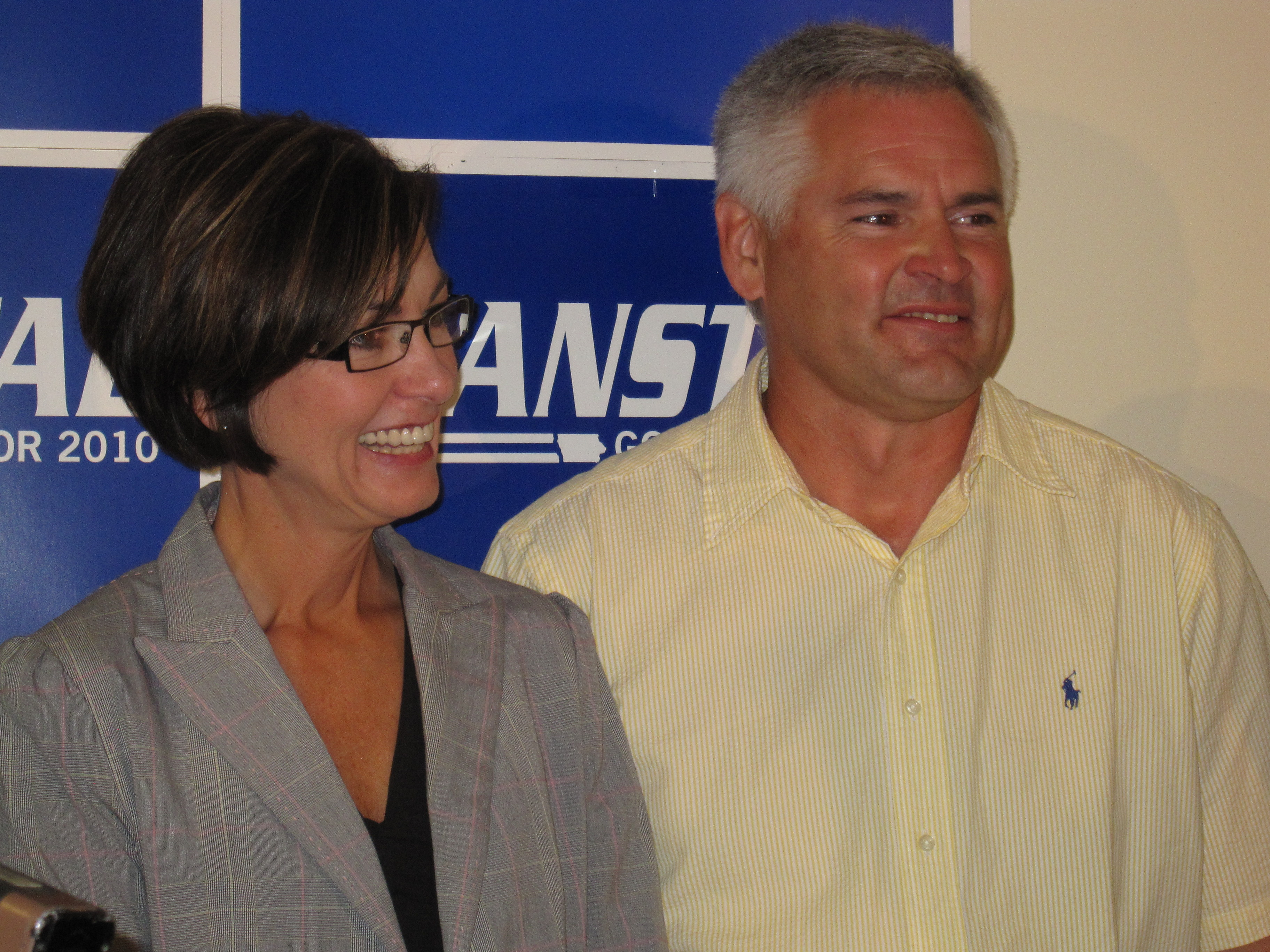 Kim Reynolds and her husband, Kevin Reynolds, in 2010 at the announcement that Kim Reynolds would be the running mate of gubernatorial candidate Terry Branstad. Kim and Kevin Reynolds would later become the Governor and First Gentleman of Iowa in 2017.